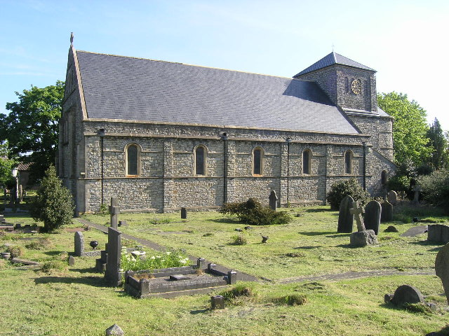 St Peter's parish church, Bishopsworth, Bristol, seen from the southwest